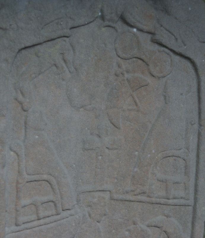 Dunfallandy Stone, near Pitlochry, Perth and Kinross, Scotland - detail